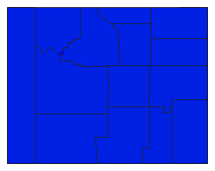 Results of the 1910 Wyoming Governor Election by county.